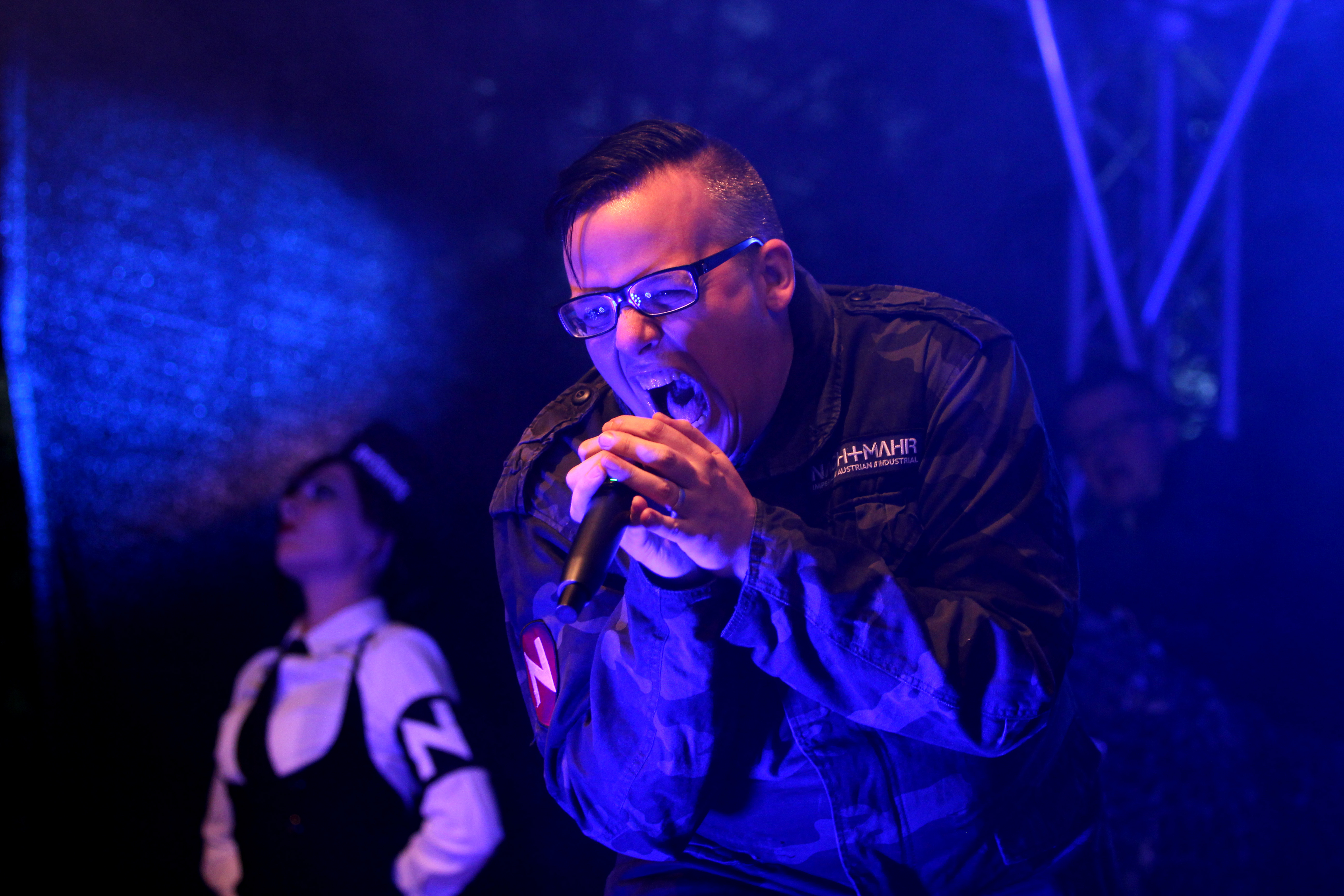 The Austrian aggrotech band Nachtmahr at the Nocturnal Culture Night 9 2014 in Deutzen/Germany